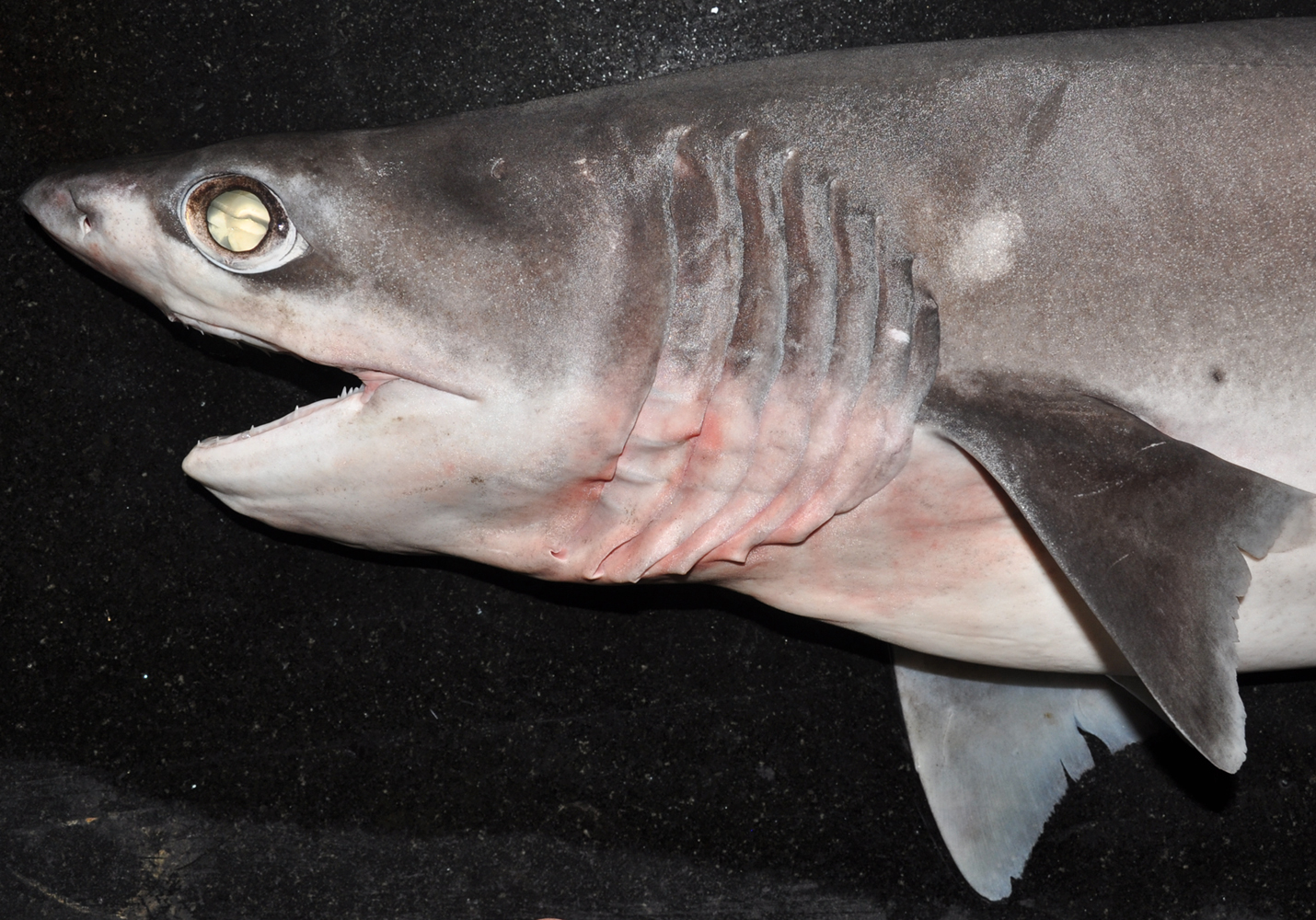 Sharpnose sevengill shark (Heptranchias perlo) caught off Cochin, India (from FishBase).